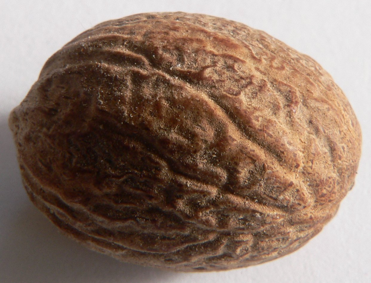 Nutmeg